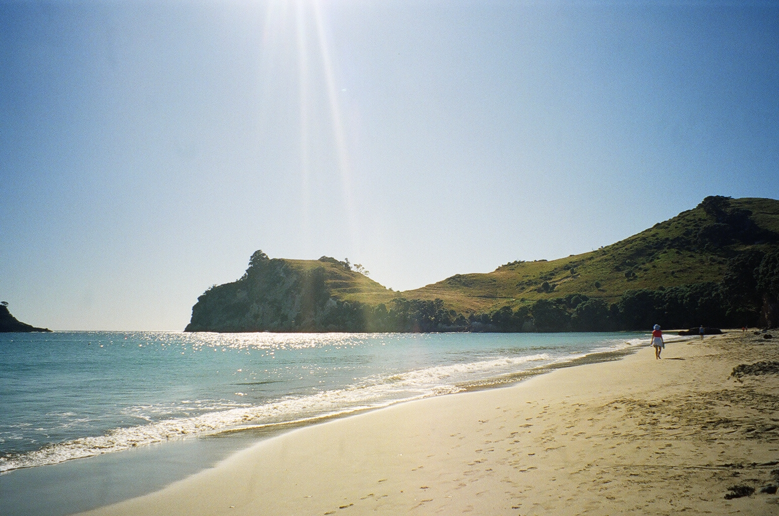 A view of the beach and the Te Pare Point Pa site on the Coromandel Peninsula in New Zealand, from the north.